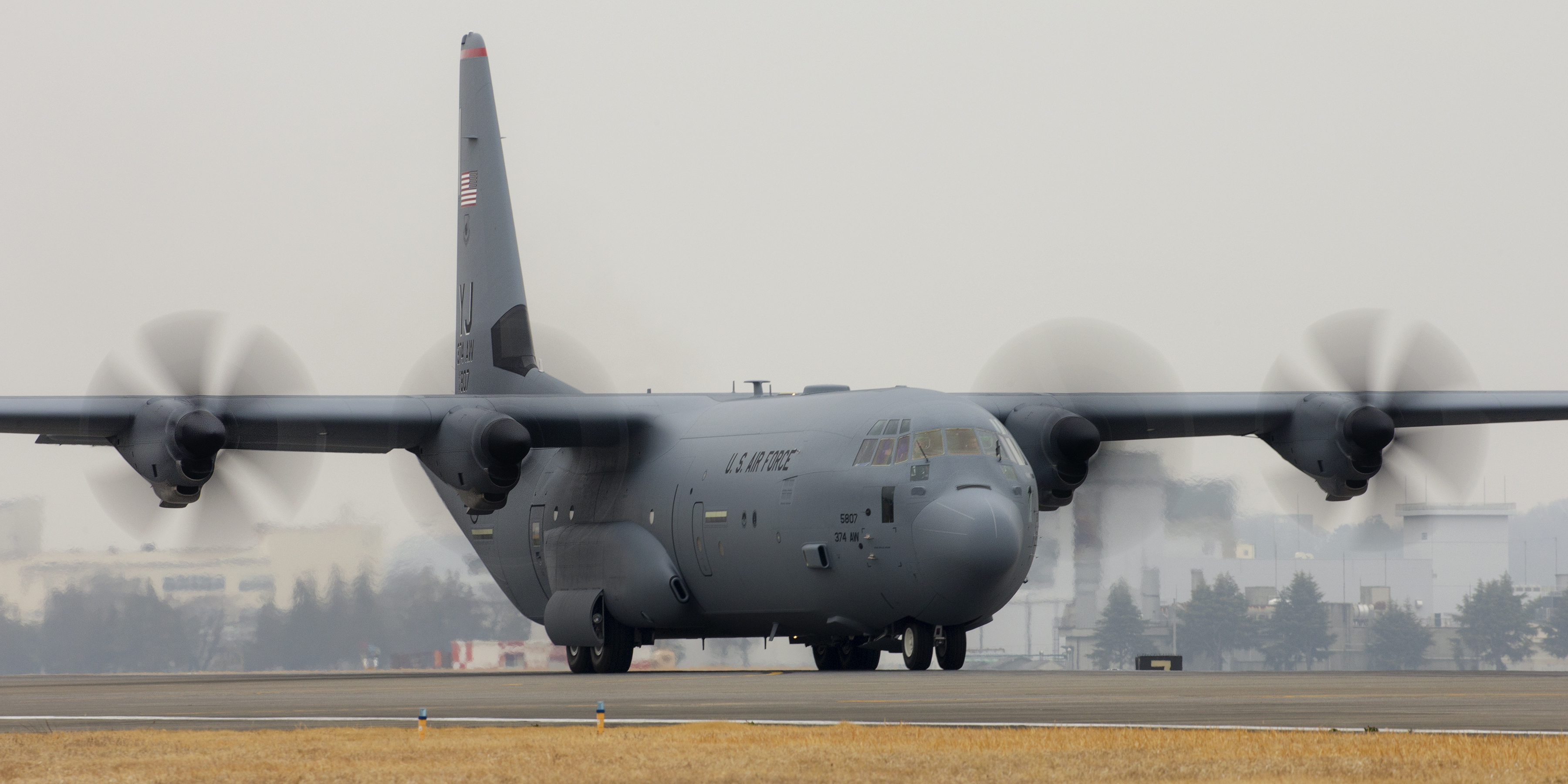 A C-130J Super Hercules taxies down a runway at Yokota Air Base, Japan, March 6, 2017. This is the first C-130J to be assigned to Pacific Air Forces. Yokota serves as the primary Western Pacific airlift hub for U.S. Air Force peacetime and contingency operations. Missions include tactical air land, airdrop, aeromedical evacuation, special operations and distinguished visitor airlift.